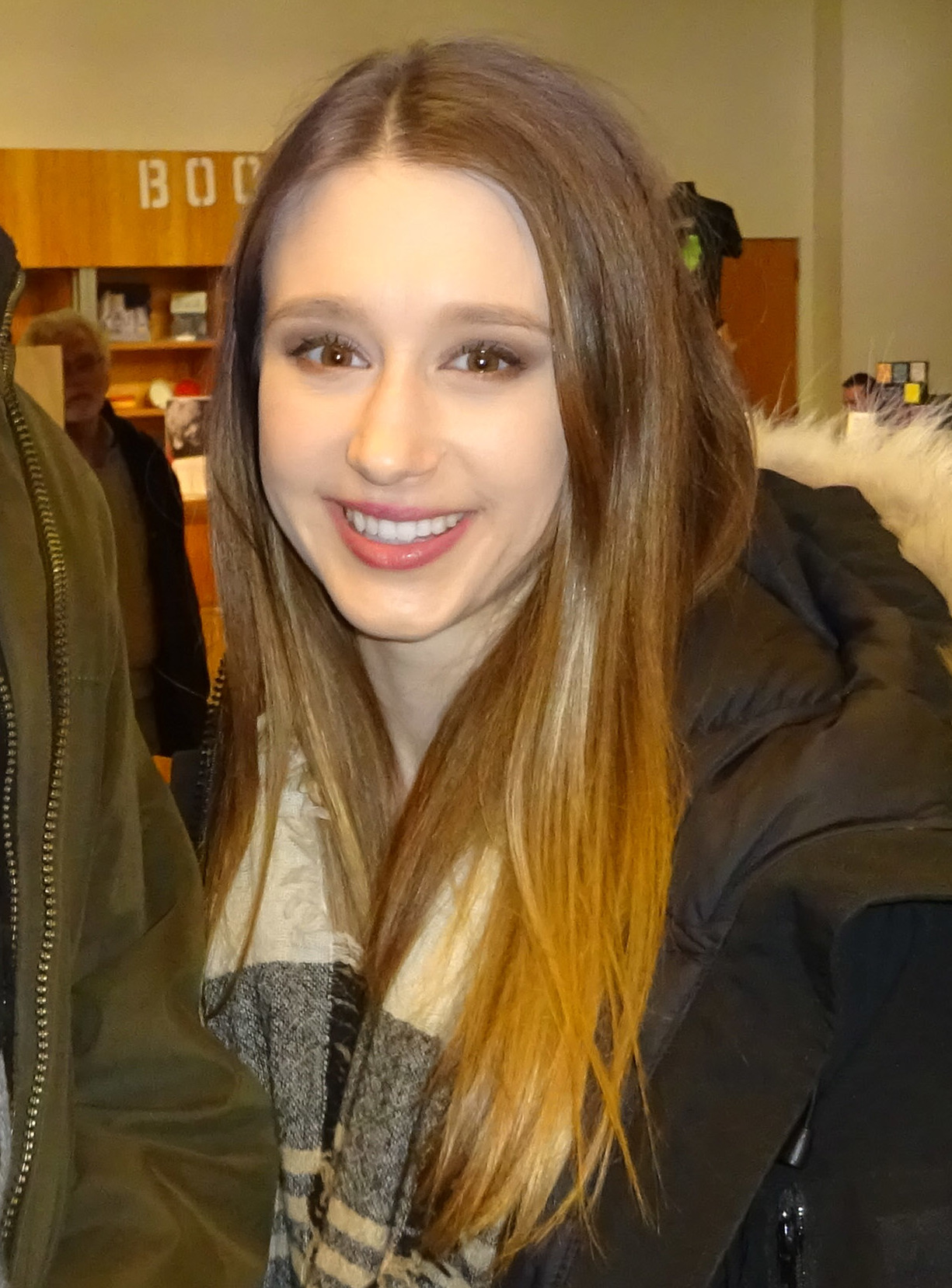 Star of American Horror Story. 2/7/16